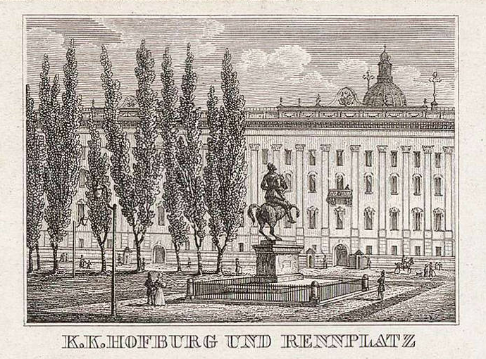 Map of Imperial and Royal Provincial Capital Innsbruck and surroundings: detail Hofburg